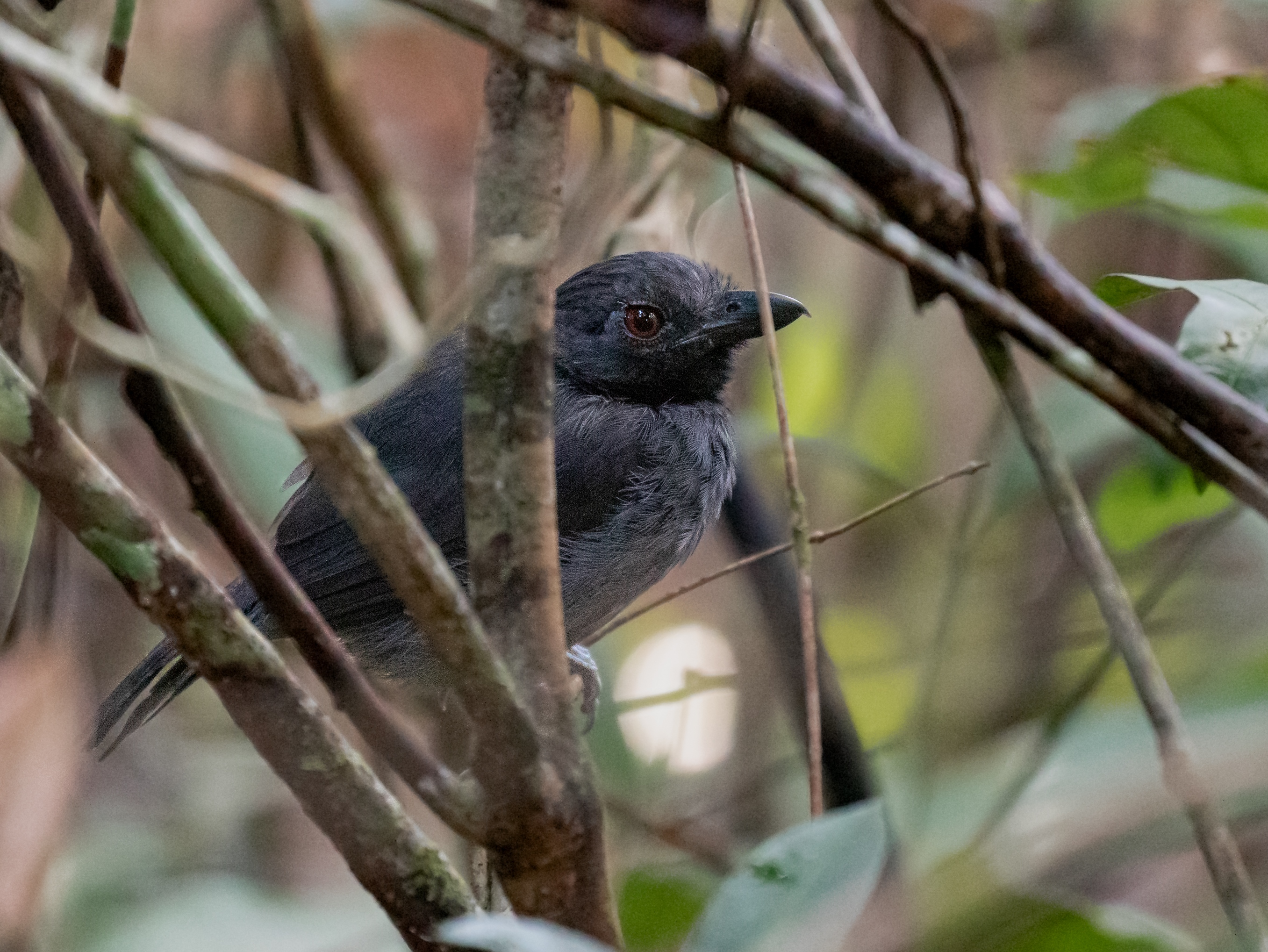 Black-throated Antshrike (male); Ramal do Pau Rosa, Manaus, Amazonas, Brazil